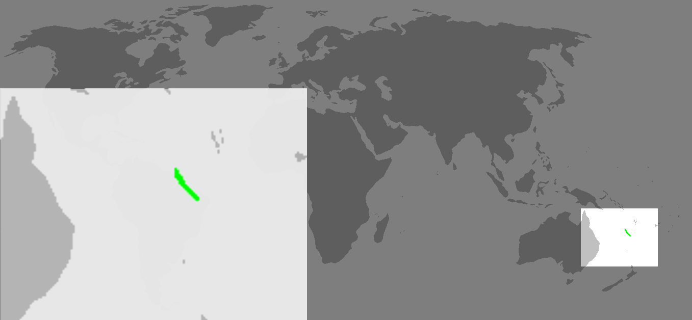 Known world distribution of Anatea formicaria (Theridiidae).